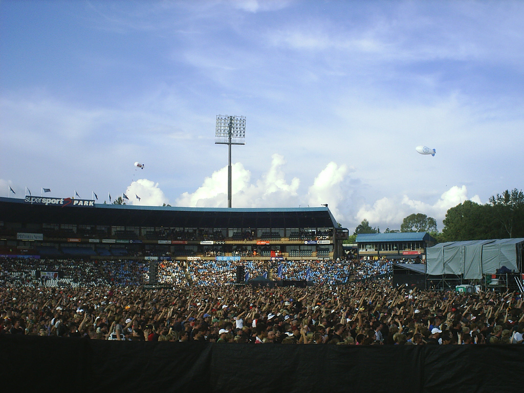 Coca-Cola Colab Massive Mix 2006 crowd